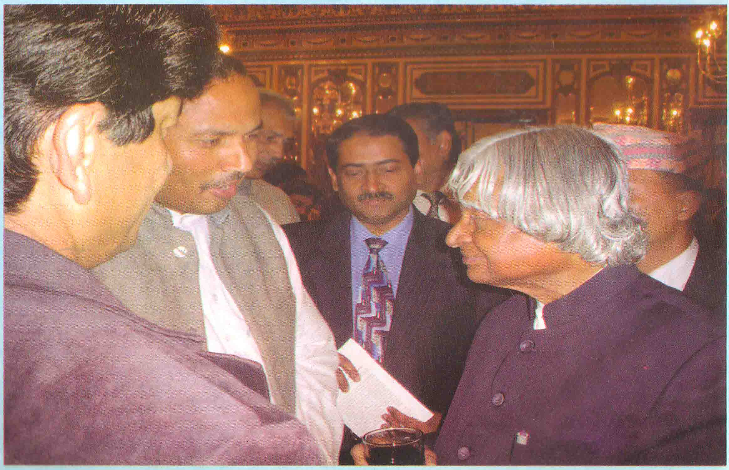 with APJ abdul Kalam